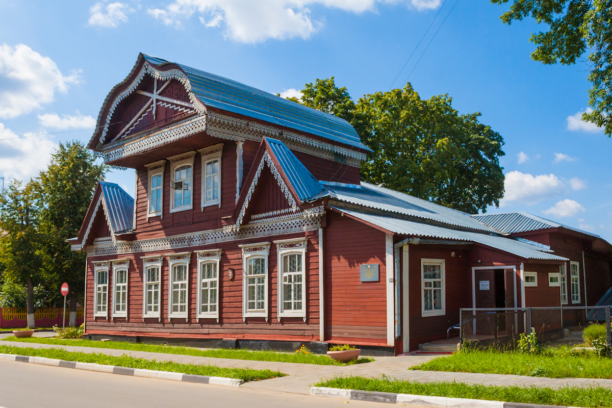 Беларуская (тарашкевіца): Будынак. г. Клімавічы This is a photo of Belarusian heritage monument. Reference number: 513Г000465 ( WLM)